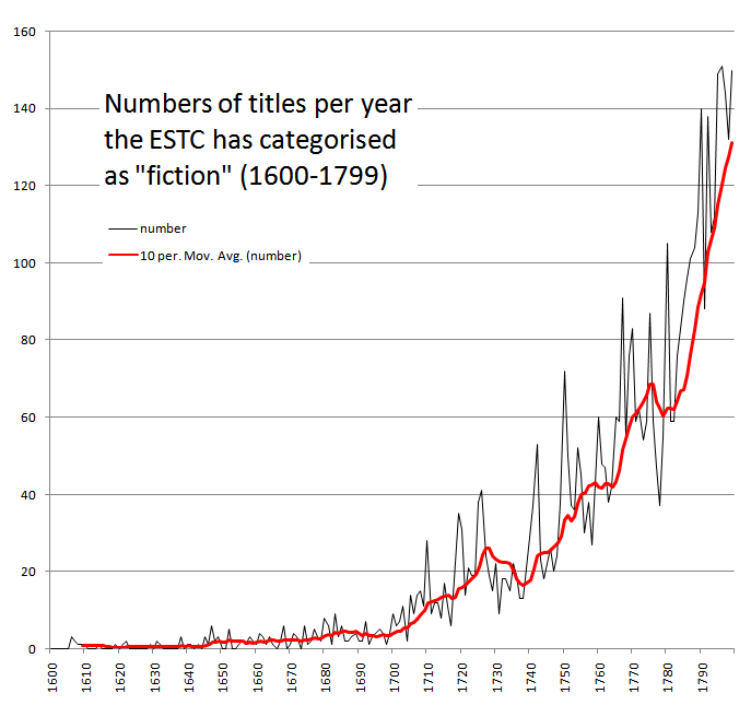 Statistic of titles the English Short Title Catalogue categorised as "fiction", 1600-1799. black line: yearly production, red line: ten year moving average